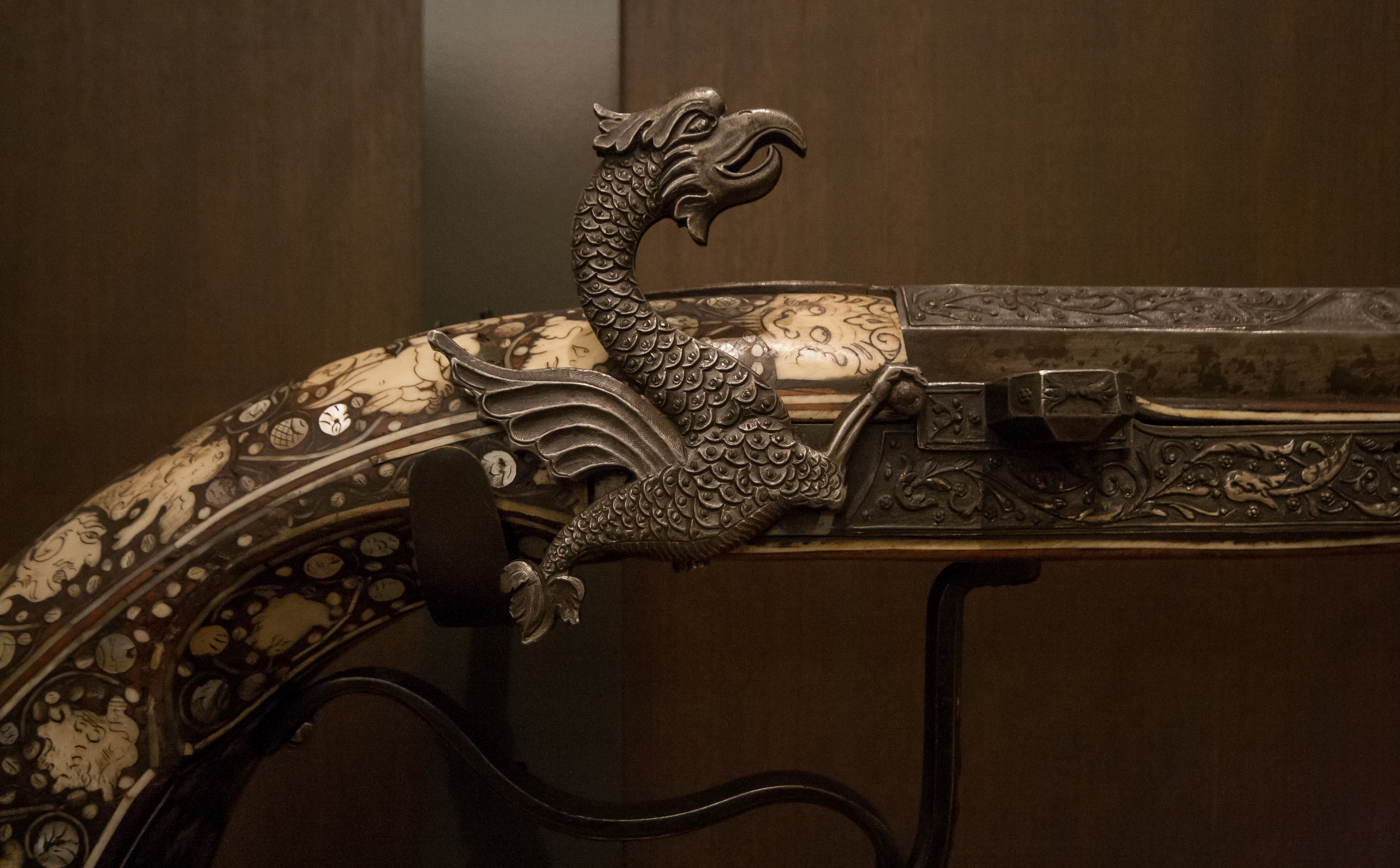 Redialed wick Pétrinal (matchlock). Italy, XVIth century. Barrel, Trigger guard and plate date of the XIXth century. Walnut frame inlaid with floral motifs and a fantastic bestiary inlaid with pearl and stag horn. Weapons Department in the Museum of Art and Industry in Saint-Étienne, France.